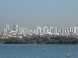 The lake in Risho Lezion. A pastoral place for family entertainment.